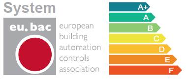 Logo of eu.bac System - the certification system for Energy Effciency of Building Automation based on EN 15252